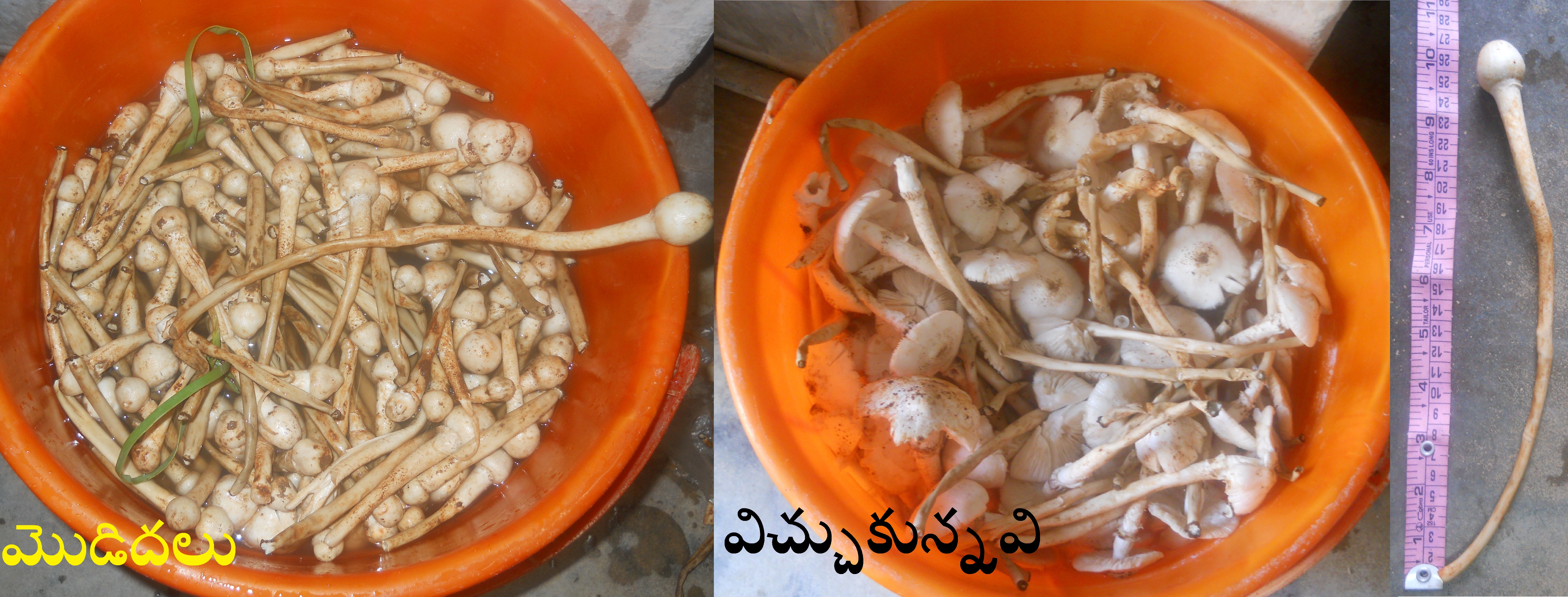 Natural Edible mushroom at Vinjamur, Nellore (dt), A.P. India